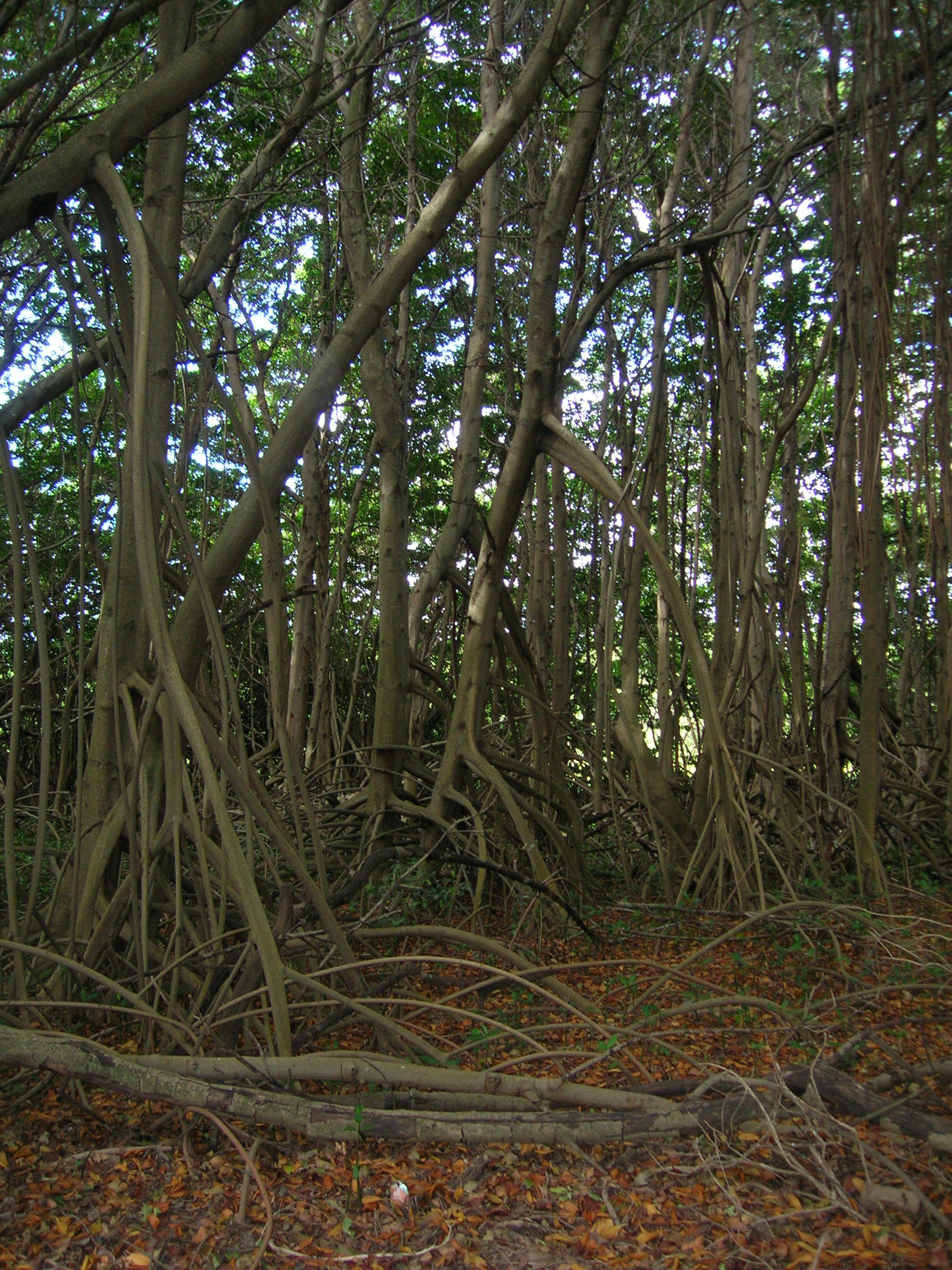 Rhizophora mangle (prop roots). Location: Molokai, Kamalo